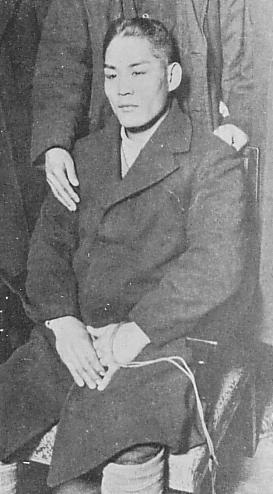 Matsukichi Tsumaki